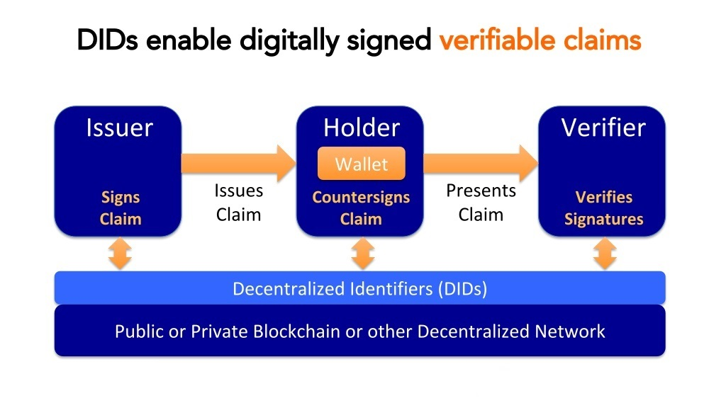 Decentralized identifiers (DIDs). The fundamental building block of selfsovereign identity. Here on slide 28 you can see a similar image in the context of the European Self-Sovereign Identity Framework (ESSIF)